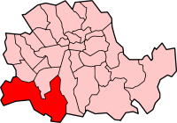 Map of the Metropolitan borough of Wandsworth, former County of London.